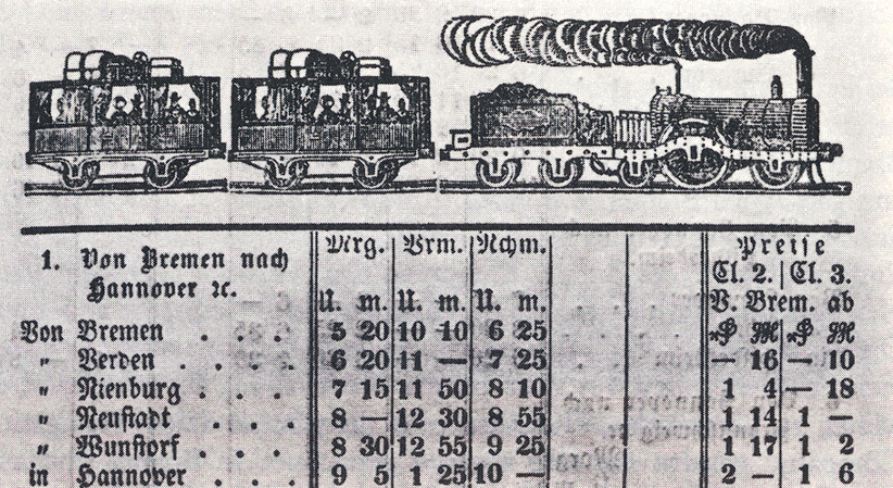 Timetable of the Königlich Hannöversche Staatseisenbahnen (“Royal State Railways of Hannover”, Germany) for the train connection from Bremen to Hannover in the year 1854.